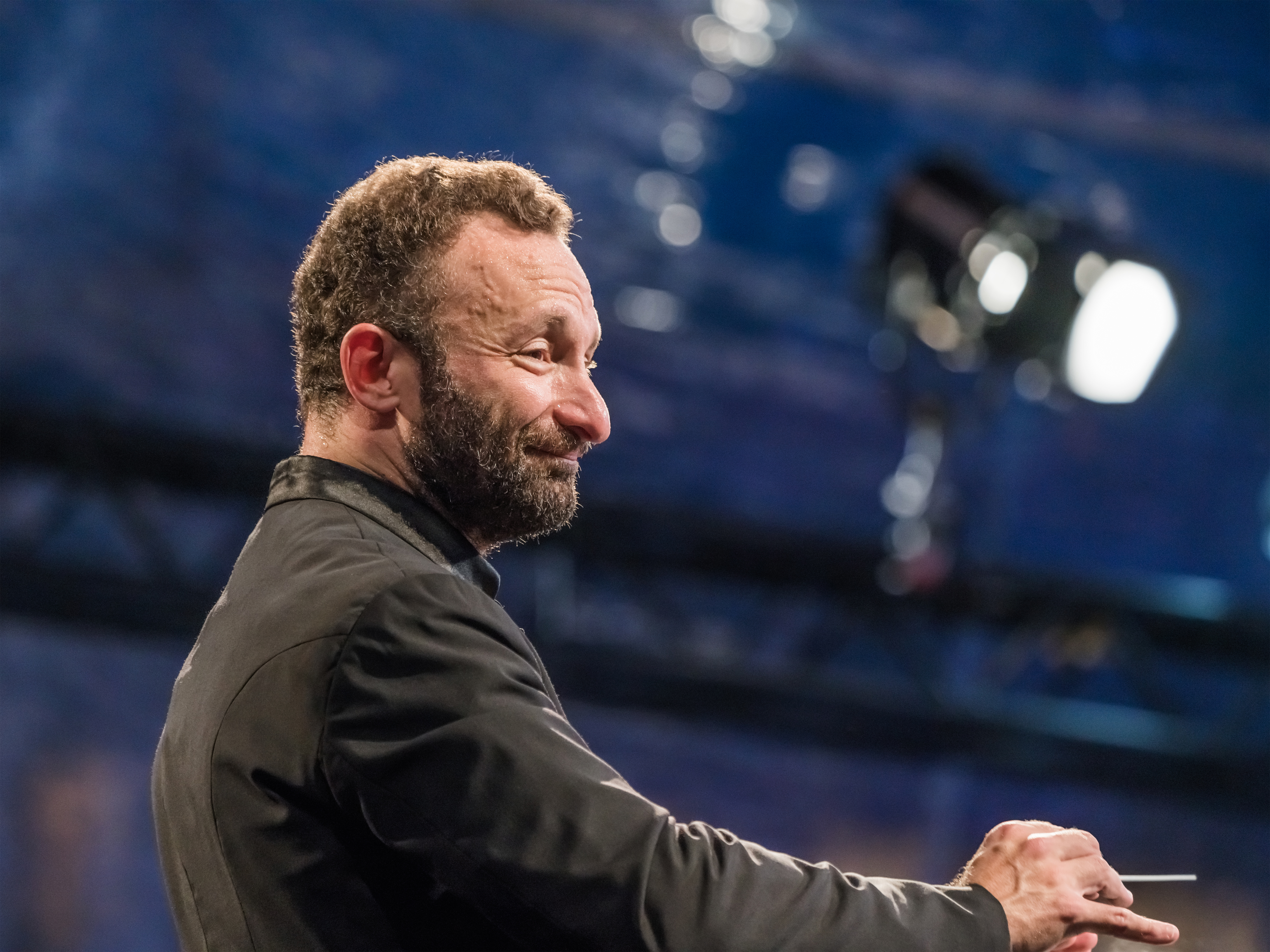 On 24 August 2019 the Berlin Philharmonics gave an open air concert at Brandenburg Gate in Berlin, with an audience of nearly 35,000 people. The conductor was Kirill Petrenko from Russia. The orchestra performed Beethoven's Symphony No. 9 D minor Op. 125.